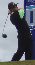 Robert Allenby teeing off at the 2004 Open Championship.